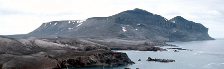 Miseryfjellet, Bjoernoeya (Bear Island), July 2002, by Michael Haferkamp